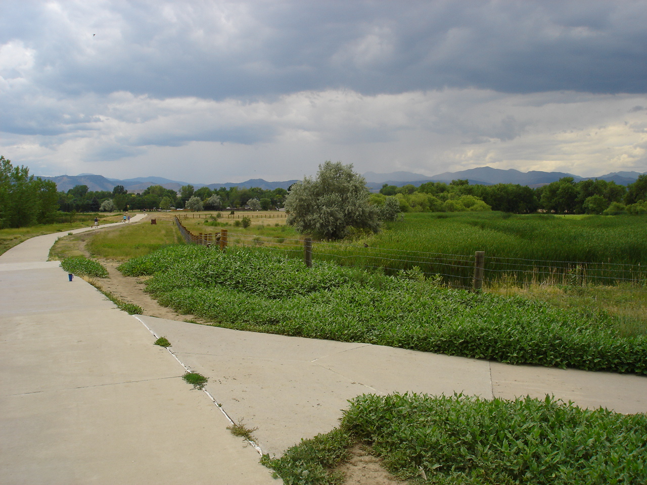 Crown Hill Park. I am the author, --Bhmildy 03:23, 14 July 2006 (UTC)